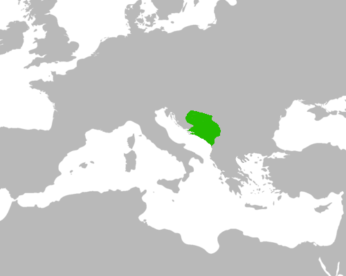 Map of Caslav Klonimirovic Serbia, own work based on other commons media